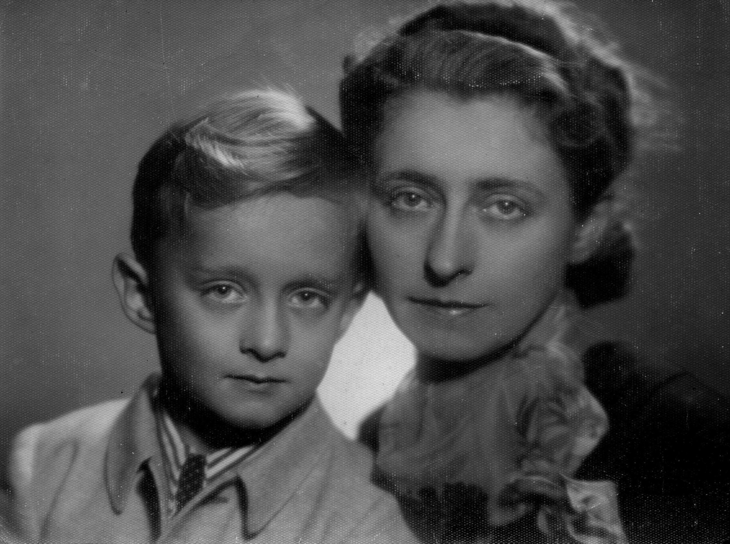 Andrzej Popiel with his mother Anna Popiel née Latinik.